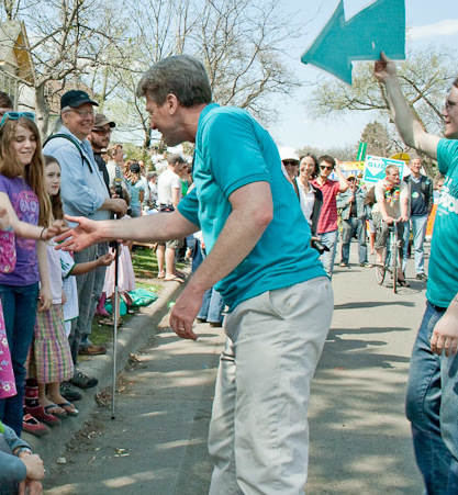 Roving Rybak, the assistants held signs saying "R. T. Rybak" like what we can't see him from a mile away with his devilish beautiful blue eyes?